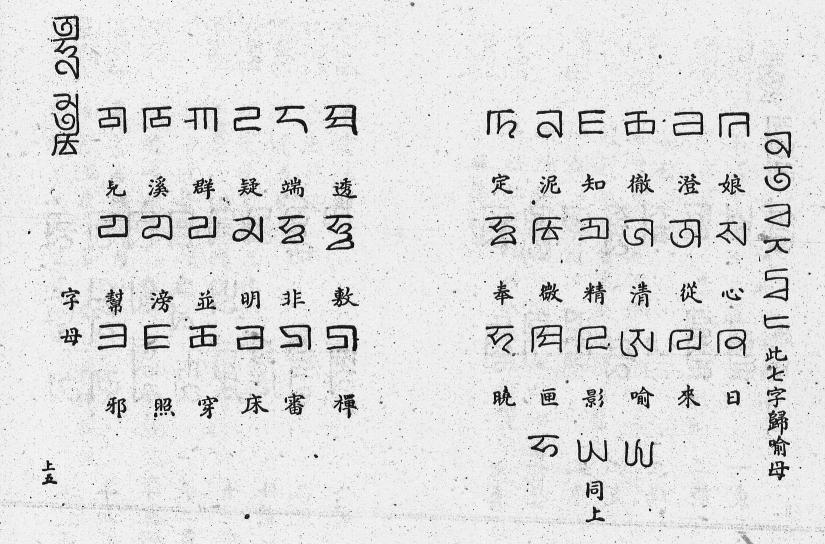 Table of 36 initials in the Phagspa-Chinese dictionary Menggu Ziyun.